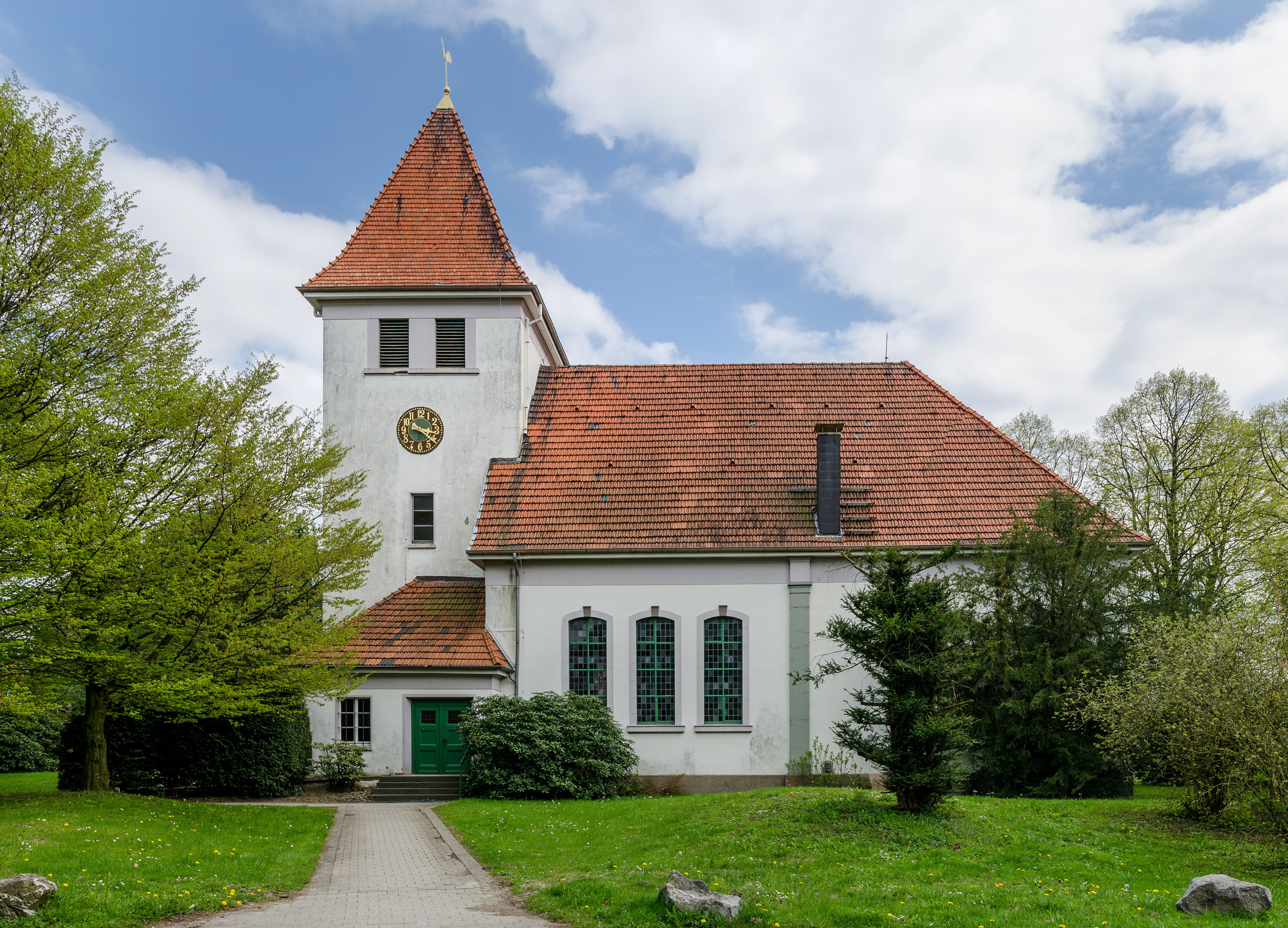 Church of Deaconess in Wülfrath-Aprath